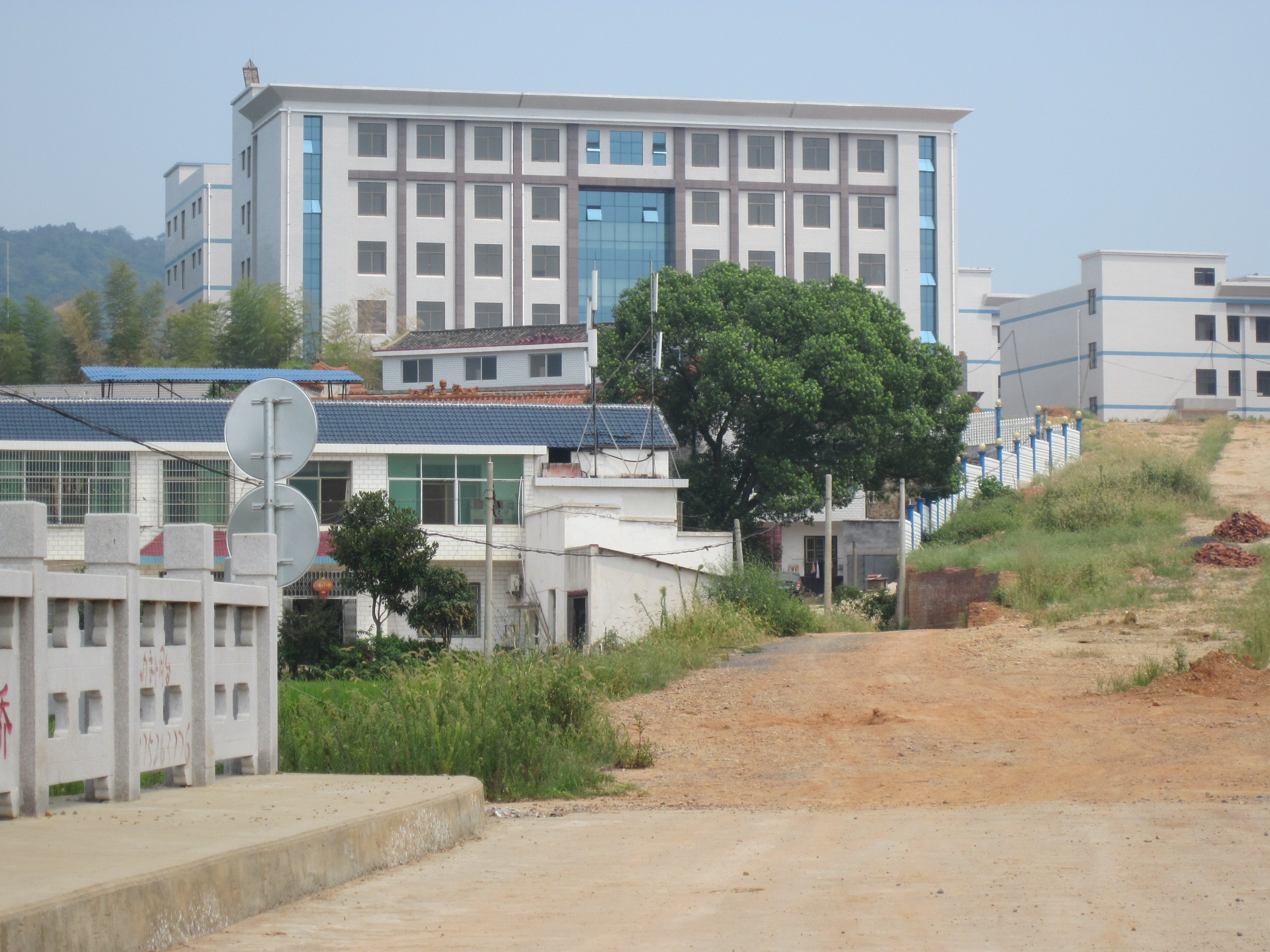 Shaoshan Vocational Technical Secondary School